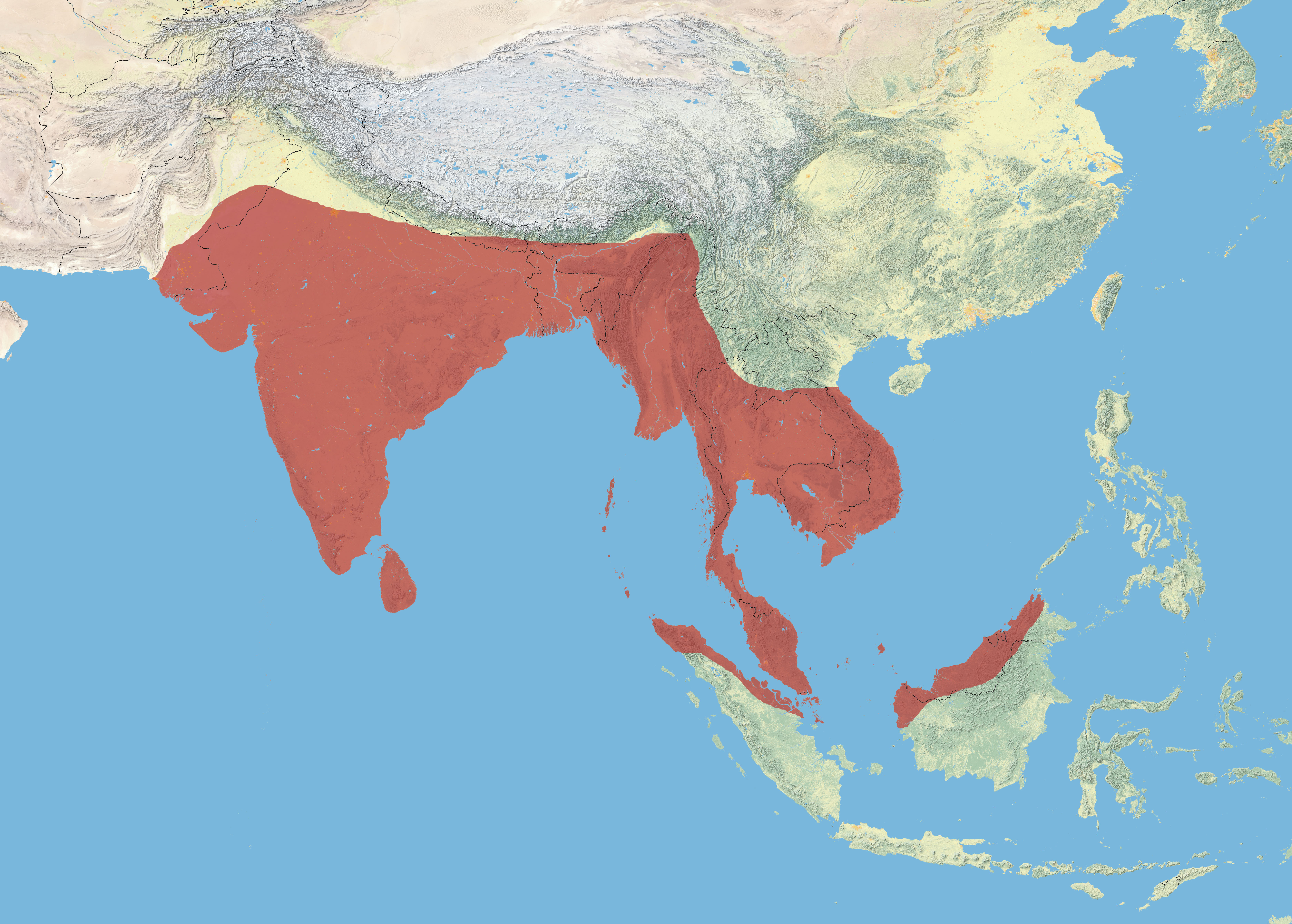 The Distribution of the Baya Weaver